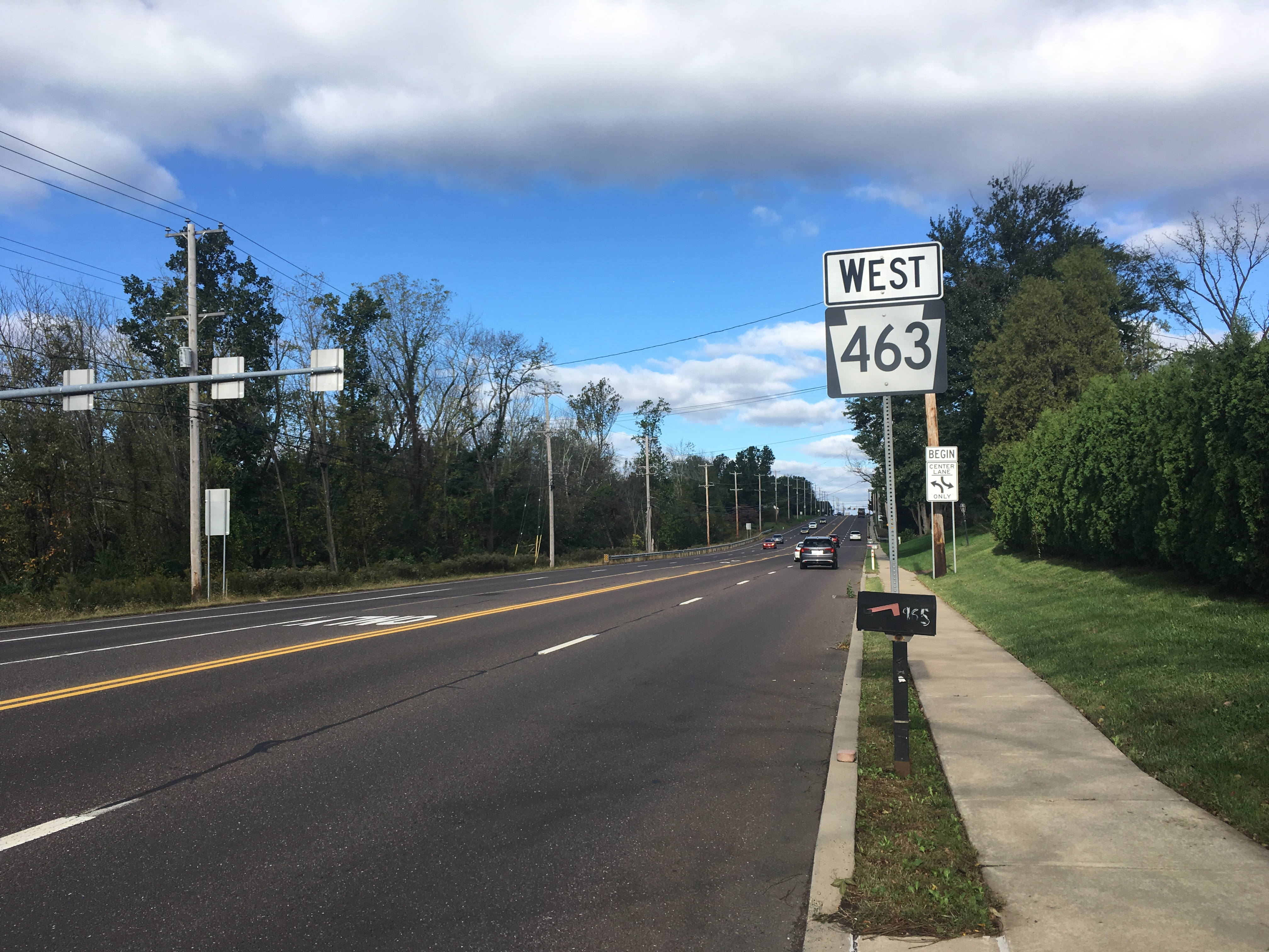 Westbound Pennsylvania Route 463 (Horsham Road) past the intersection with Upper State Road in Montgomery Township, Pennsylvania